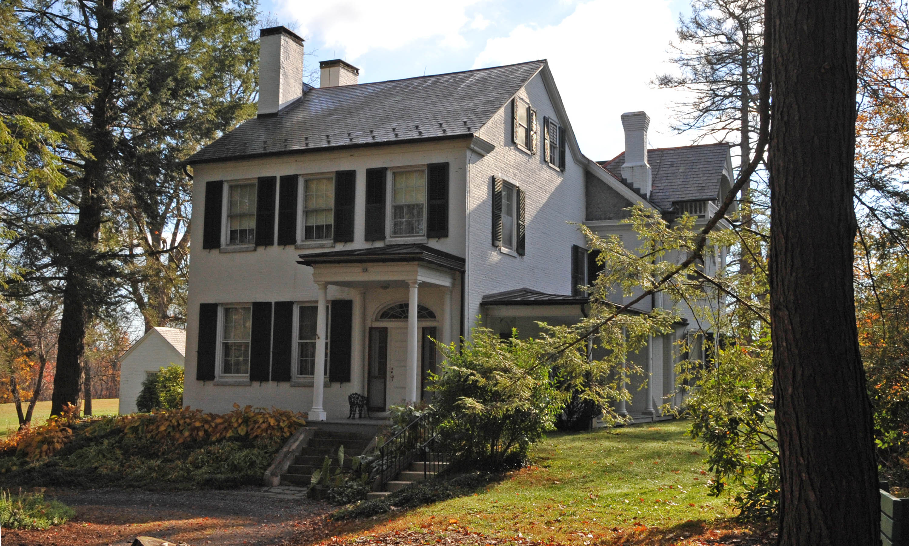 BOULTON; BUILT IN 1832 BY JOHN JOSEPH HENRY IN FEDERAL STYLE; THE HENRY FAMILY MANUFACTURED THE HENRY RIFLE FOR AT LEAST THREE GENERTATIONS AND IT WAS IN USE BY JOHN JACOB ASTOR AND IN THE CIVIL WAR